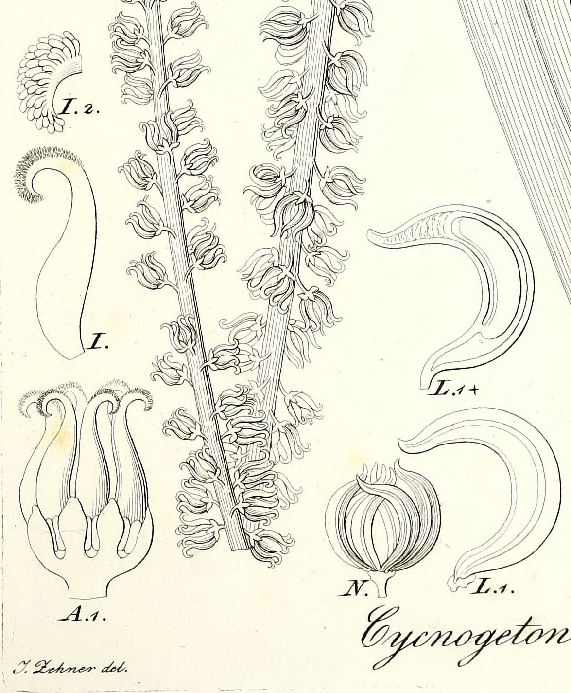 Portion of File:Iconographia generum plantarum (Tbl. 73) BHL41750012.jpg in order to show detail of plate